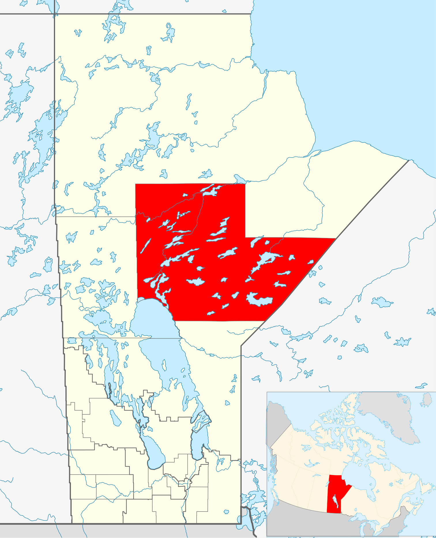 Division No. 22, Manitoba.